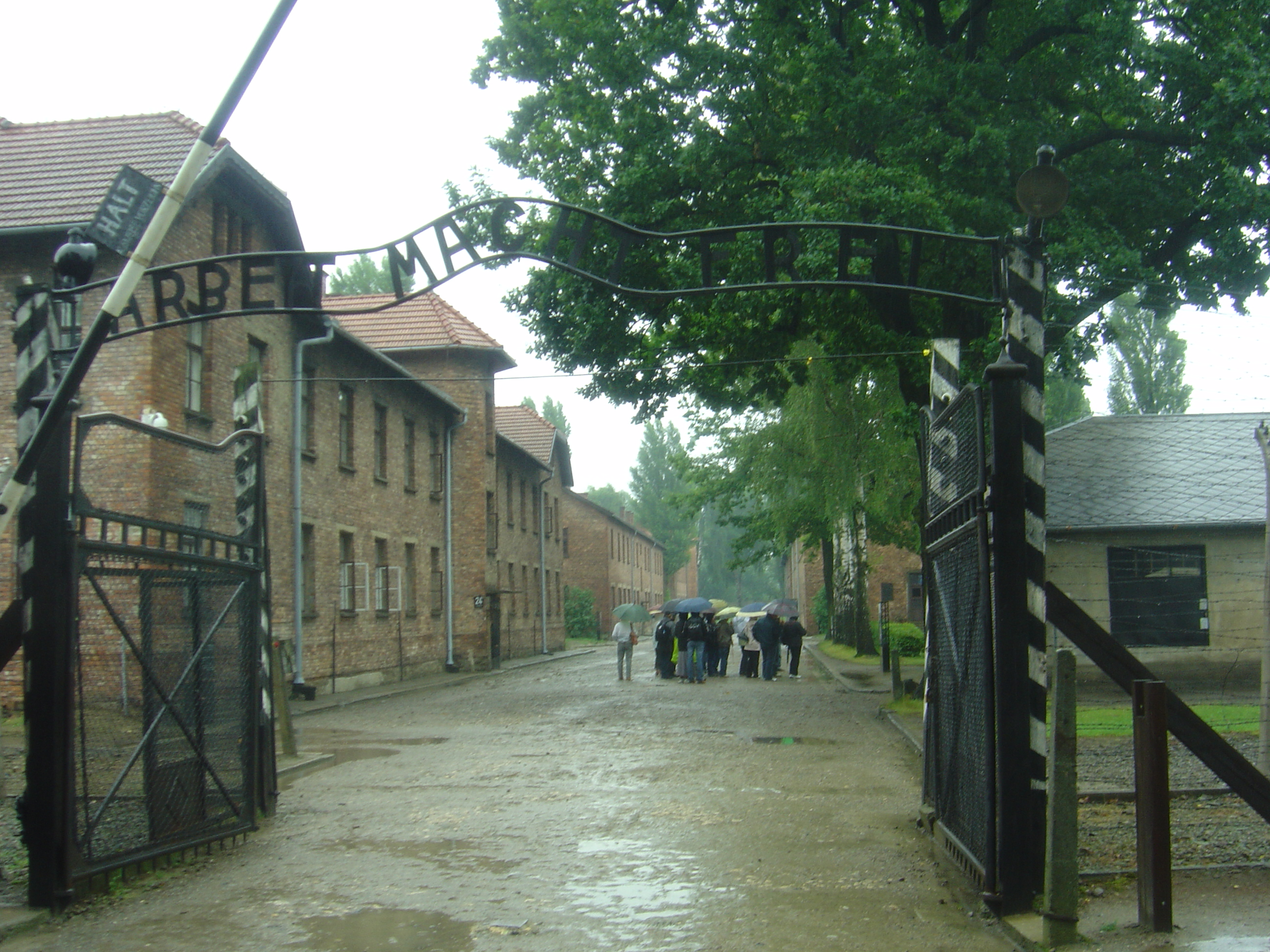 Auschwitz, The camp- museum main gate